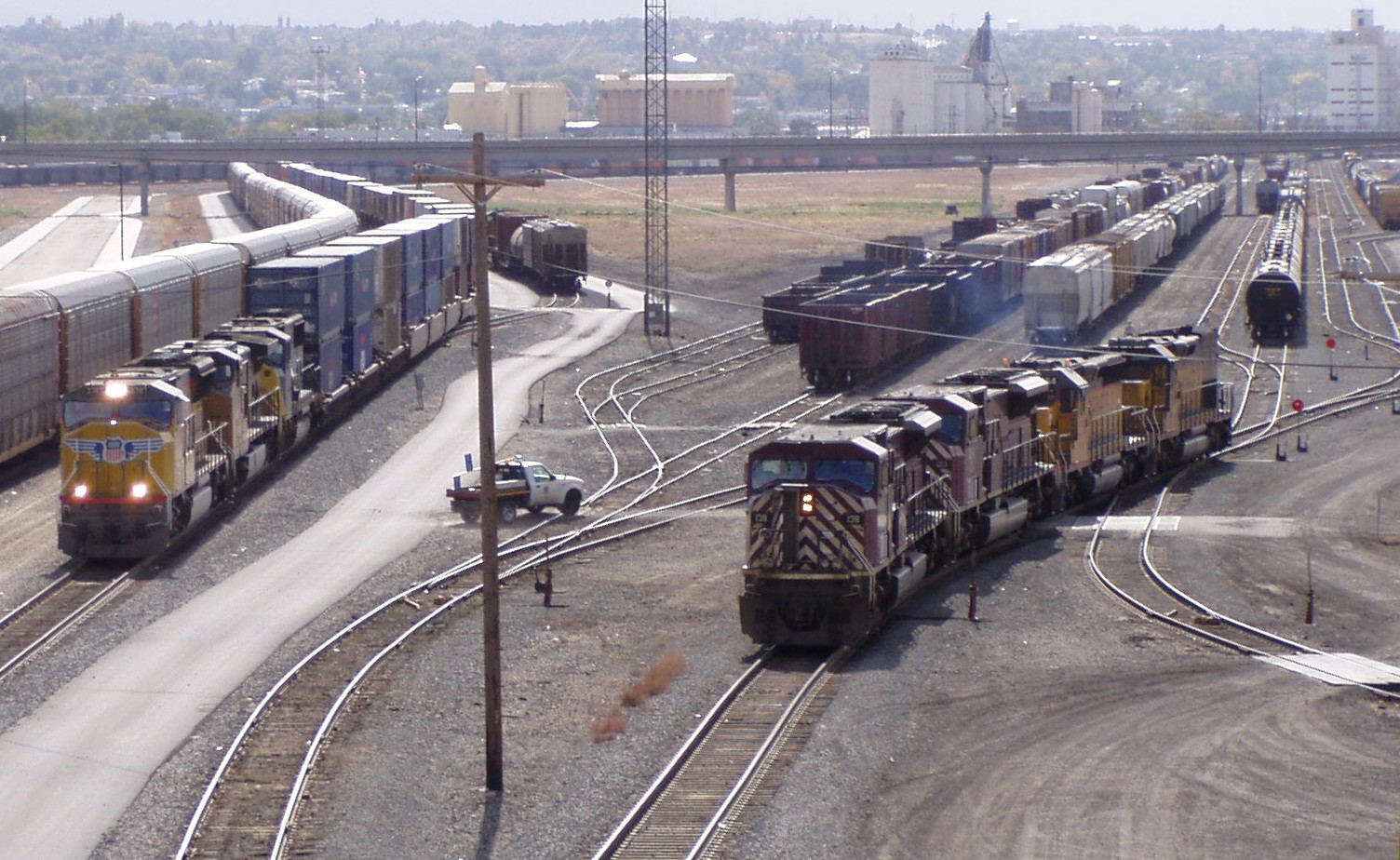 Typical Union Pacific yard operation, Ogden, Utah. Photo by Evan Jennings, Oct. 2004.